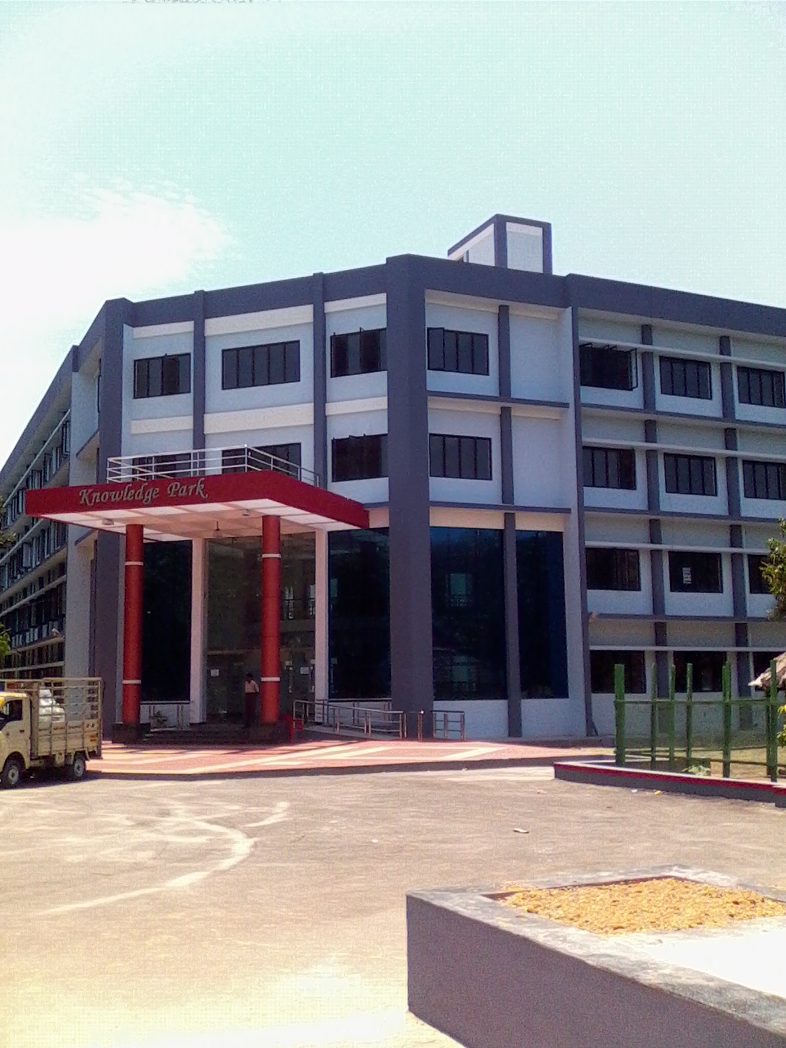 Science Park which is recently built at College of Engineering, Guindy- Anna University